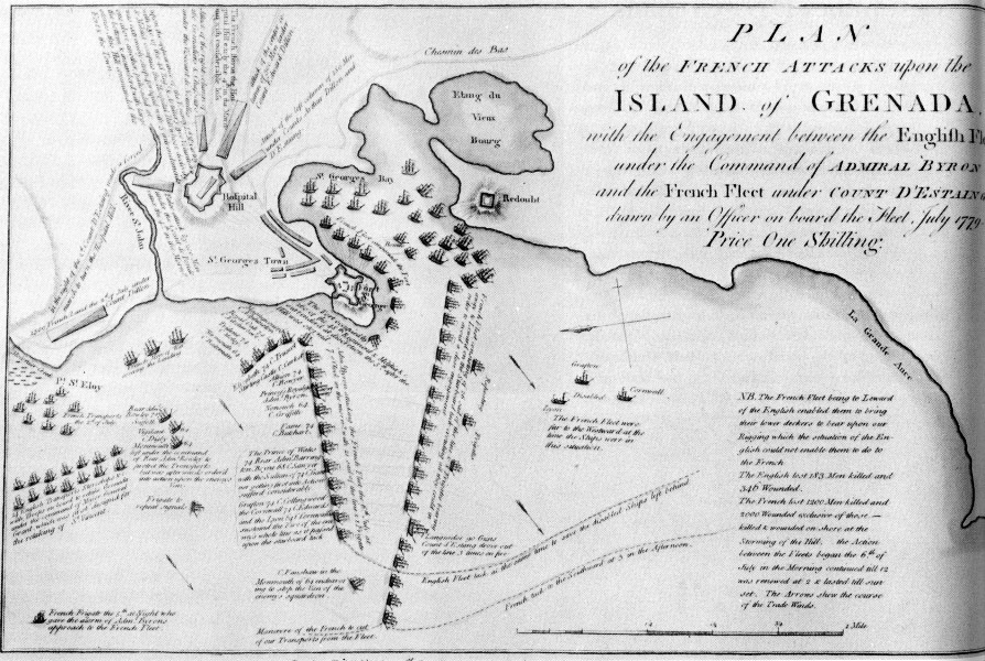 Map of the land and naval battle of Grenada, 4 and 6 July 1779.